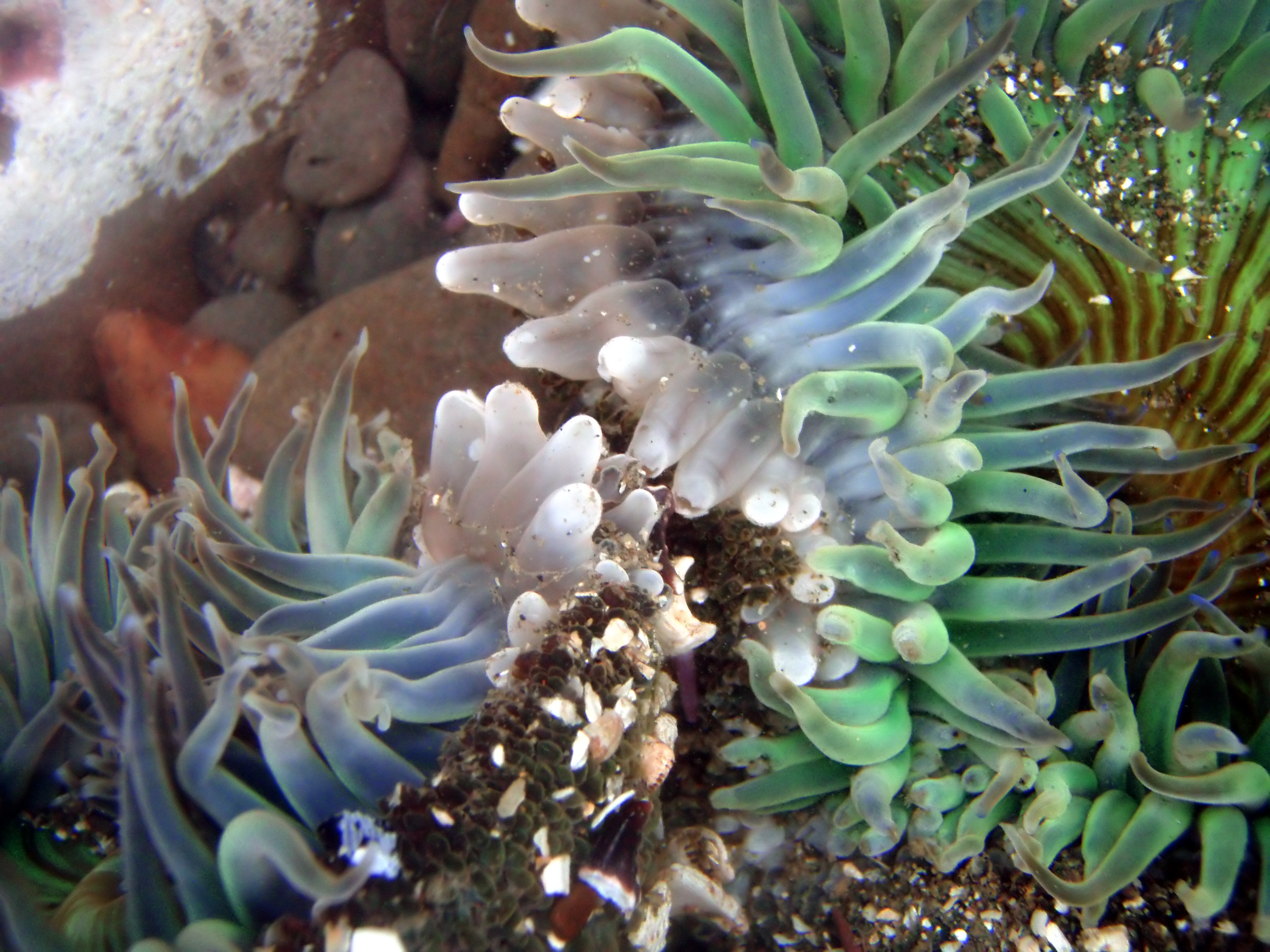 Sea Anemones, Anthopleura sola are engaged in a war for territory. The white tentacles are fighting tentacles. They are called acrorhagi. The acrorhagi contain concentration of stinging cells. After war ends one of them should move. Sea Anemones look like plants, but they are animals and they are predators.